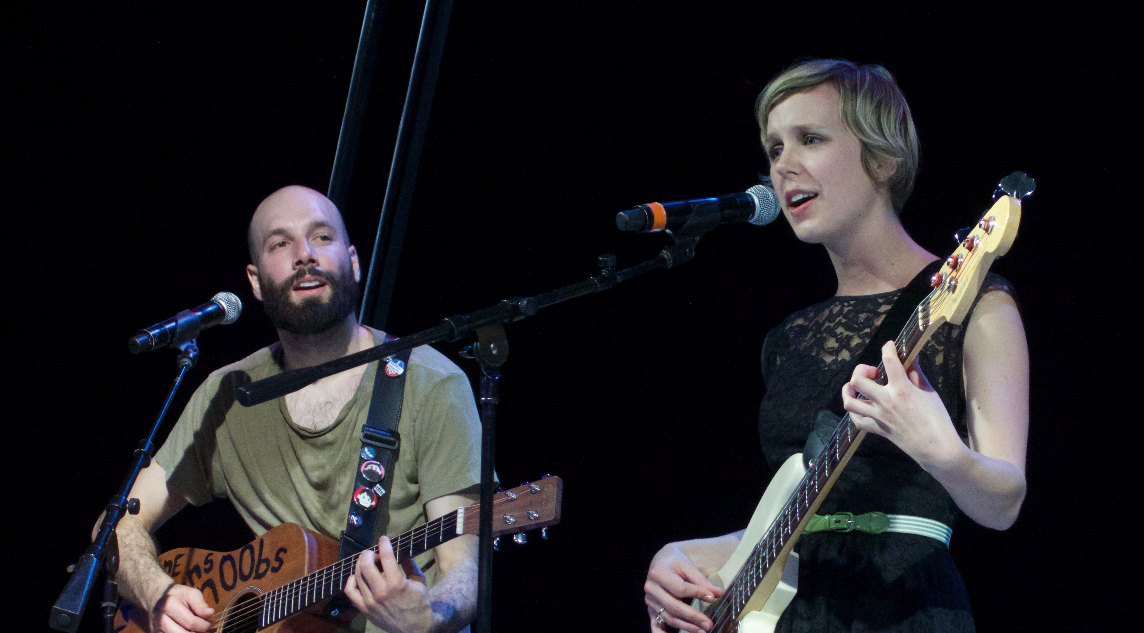 Natalie and Jack